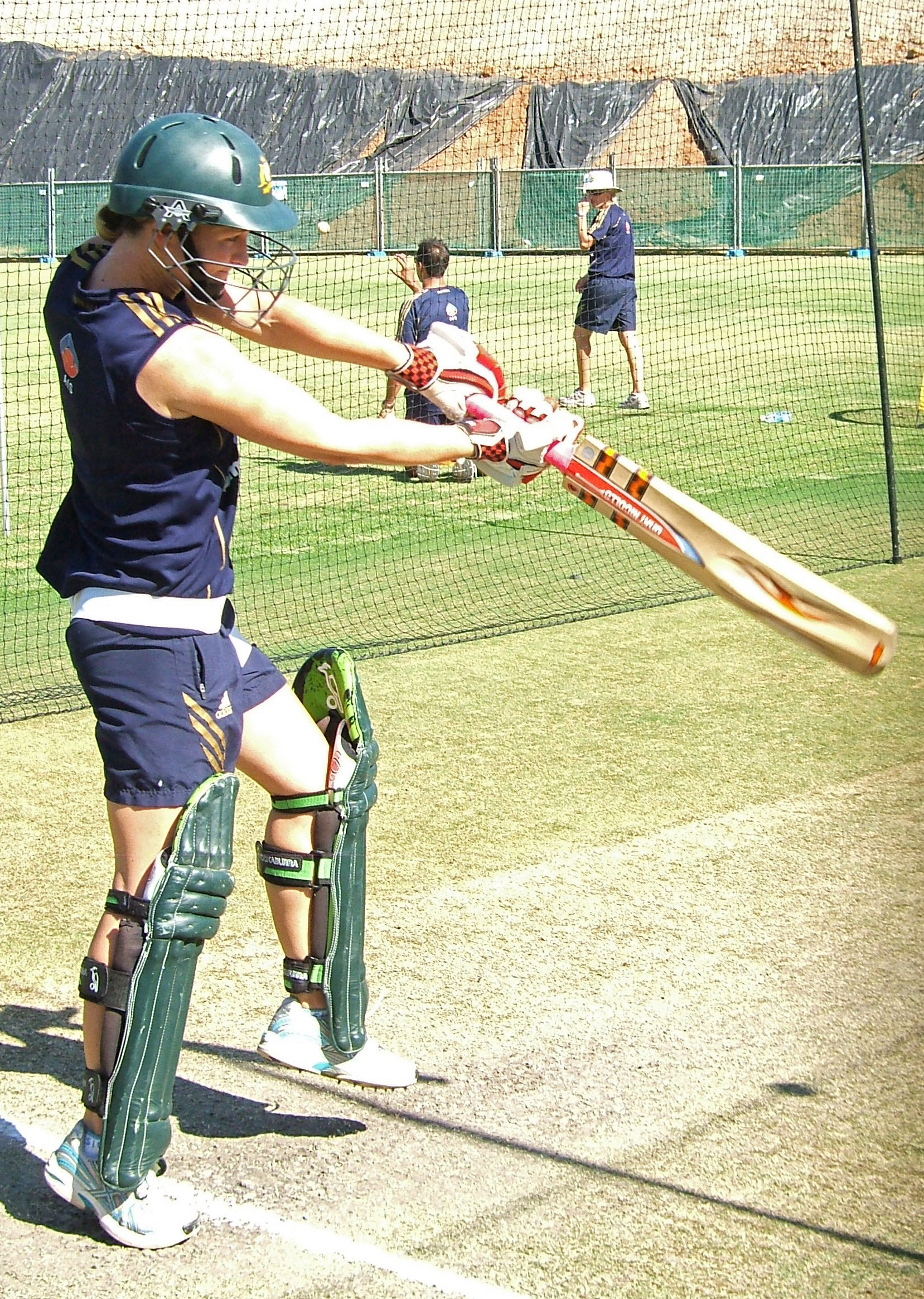 Named person engaging in named action at Adelaide Oval nets/training ground